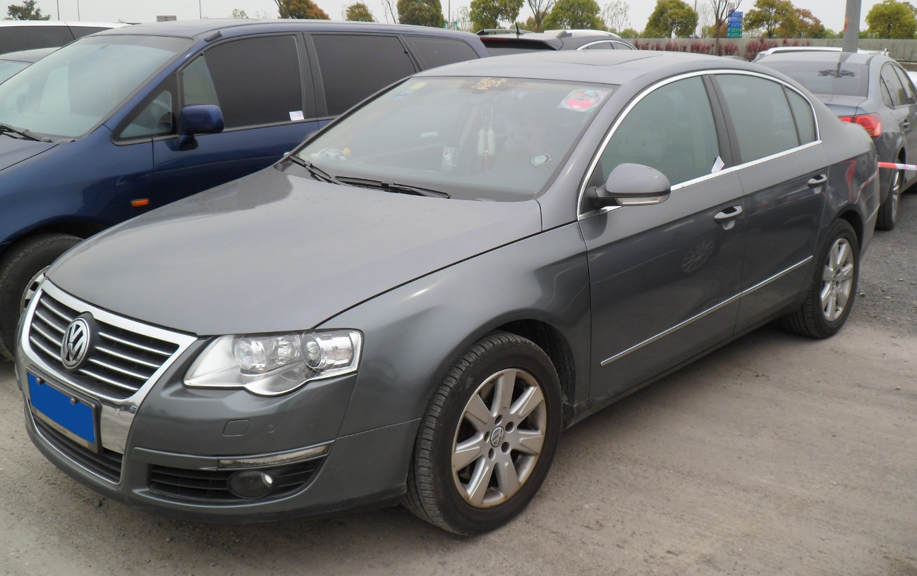 Volkswagen Magotan B6 photographed in Anting, Shanghai municipality, China.